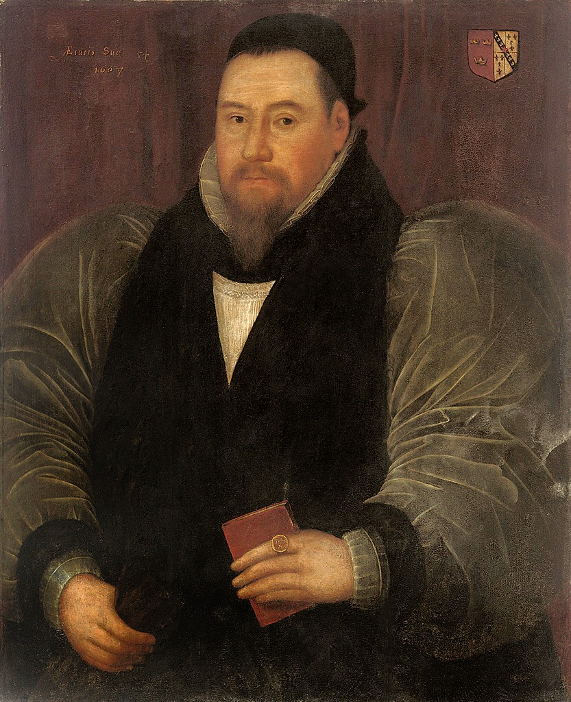 Portrait of Martin Heton, Bishop of Ely, 1607.